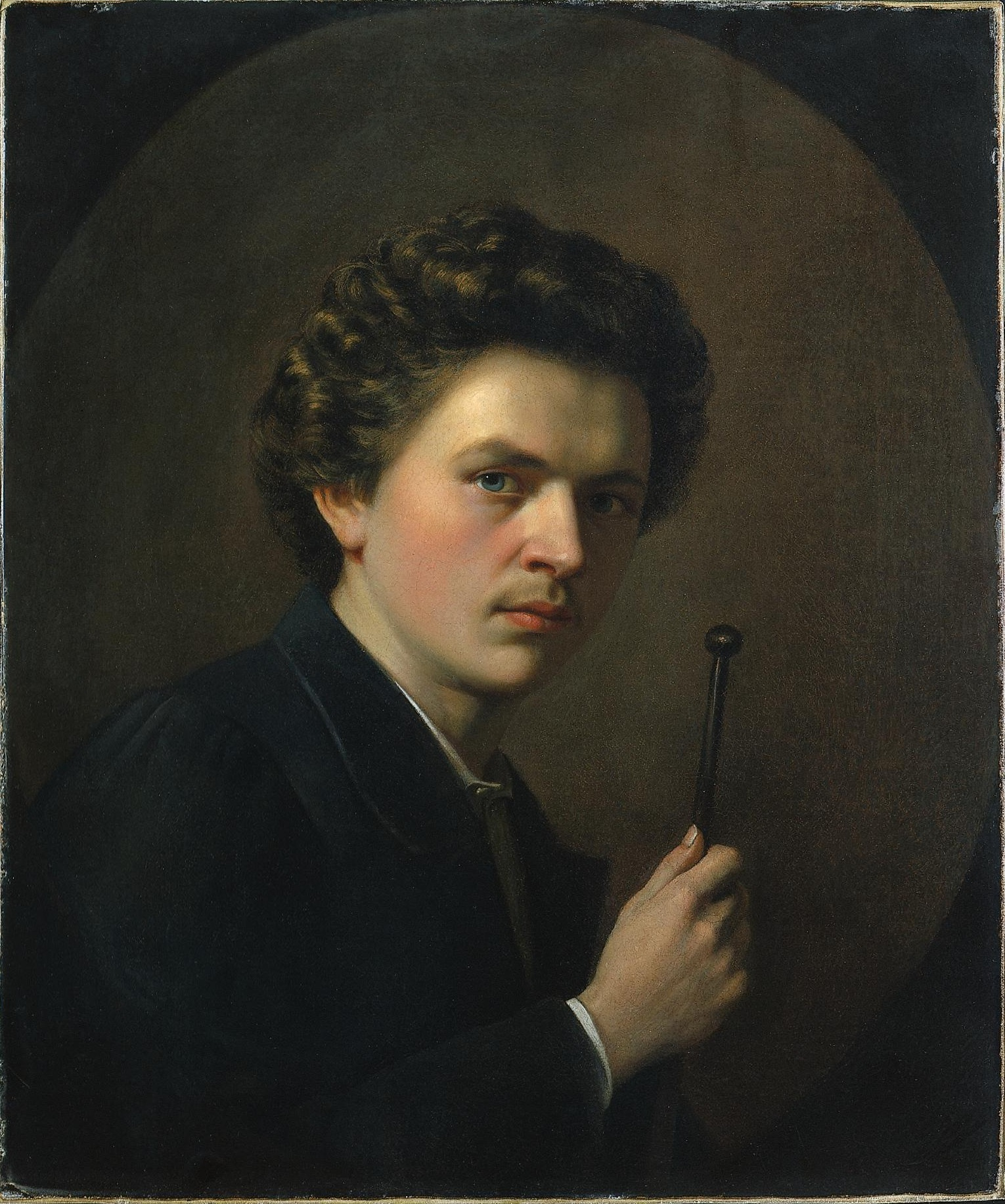 Self-portrait with a maulstick